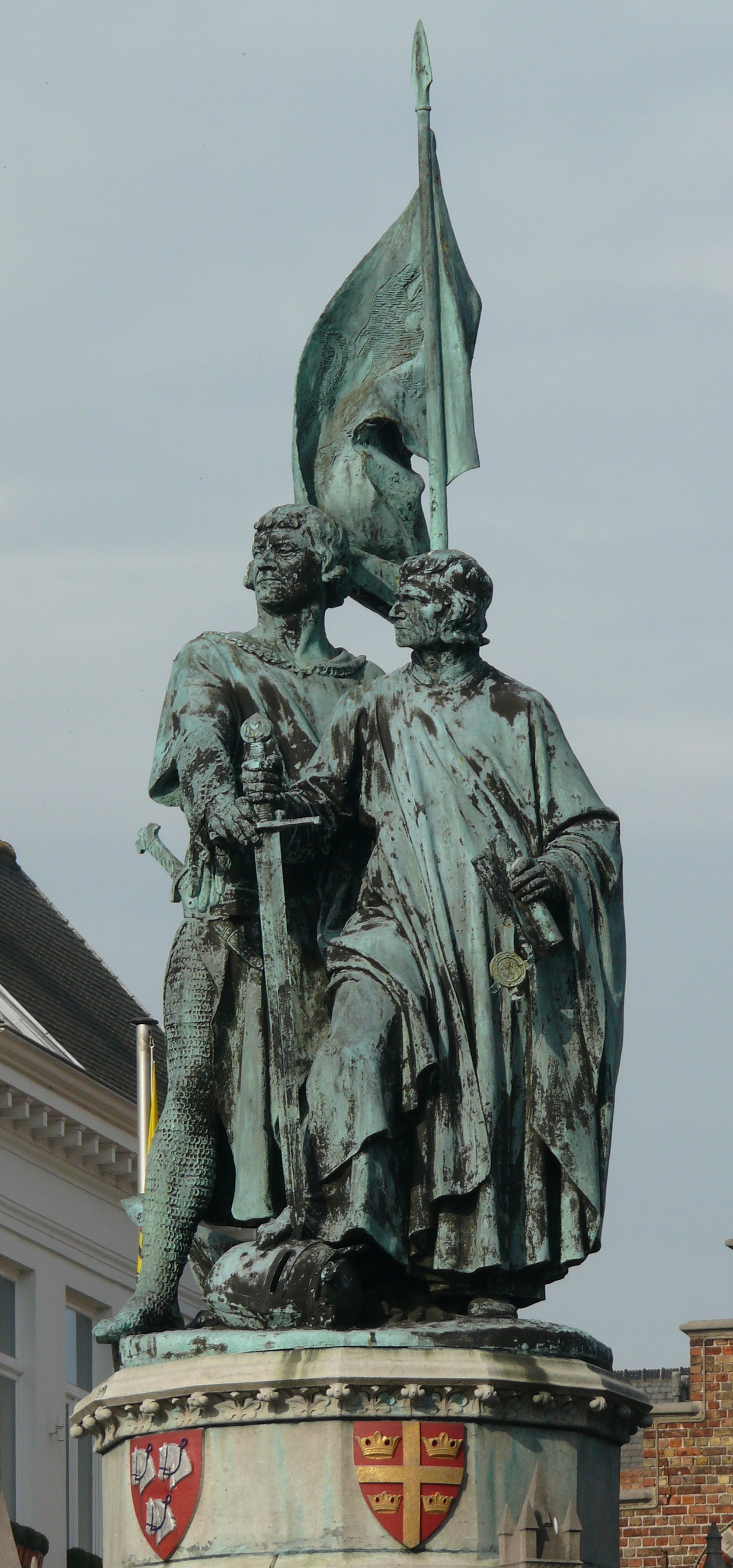 In the center of the market square of Bruges stands the statue of Jan Breydel and Pieter de Coninck, who led the Bruges Matins in May 1302. Jan Breydel and Pieter de Coninck have often been portrayed as patriotic heroes in Belgium because of their passion for Flemish identity. They were both present at the Battle of the Golden Spurs, where a Flemish makeshift army and a motley alliance of Flemish and Namur petty nobles defeated the French army under the command of Robert II of Artois.